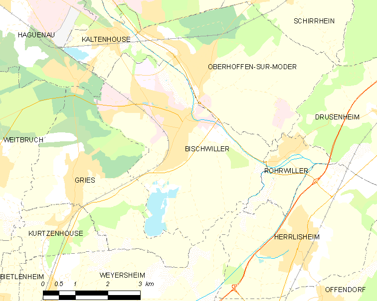 Map of French municipality